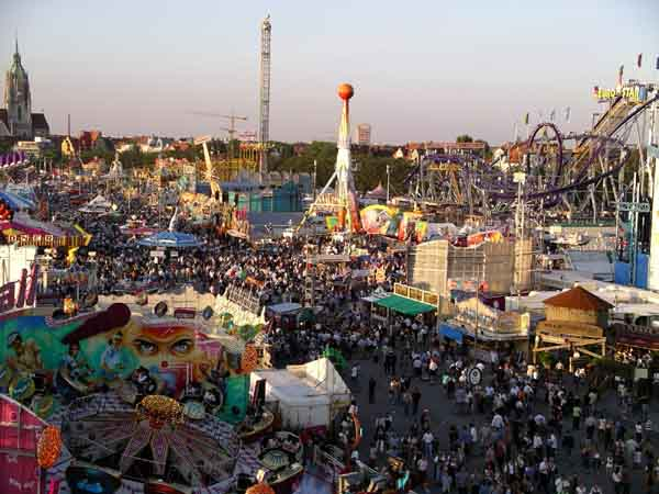 The Oktoberfest in Munich from Ferris wheel